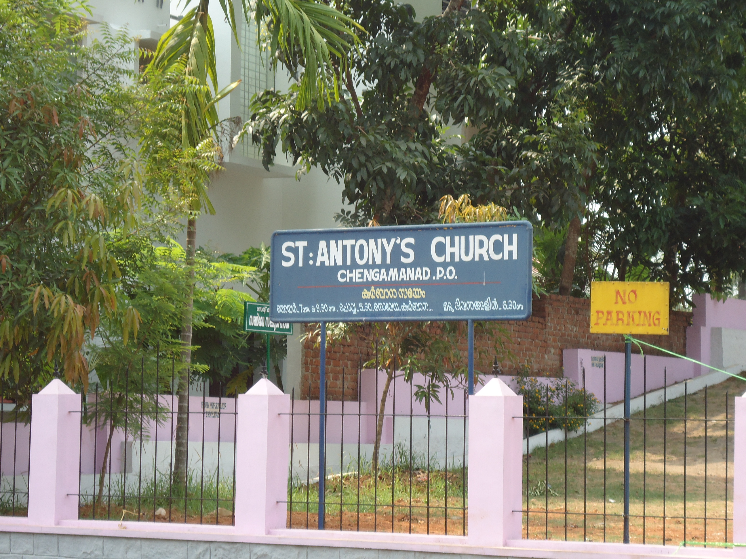 St Antonys Church Chengamanad Board